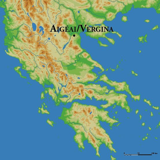 Ancient greek city of Aigeai/Vergina - location in Greece. Drawing by Marsyas.